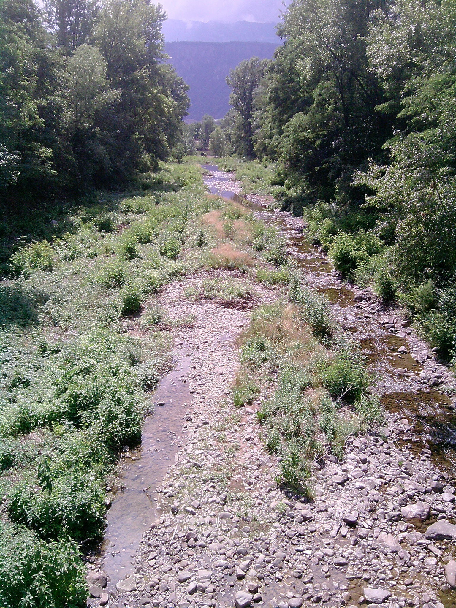 The Brantenbach in Leifers